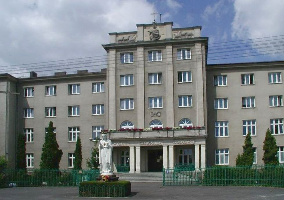 The main building of the Pallottine Seminary in Ołtarzew, Poland